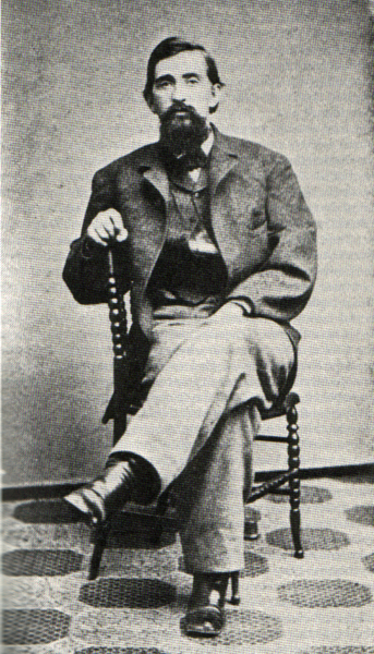 William Campbell Preston Breckinridge Scanned from: Dr. Klotter confirms that the image is public domain